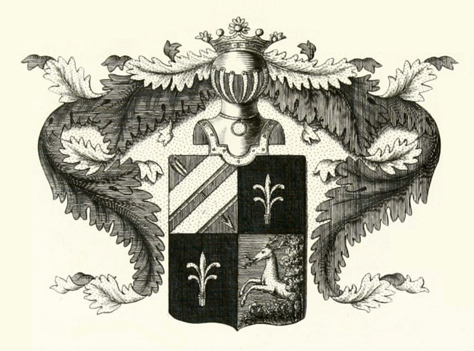 This (more than) 200 years old image has been reformatted, so it became a personal creation, with no rights attached